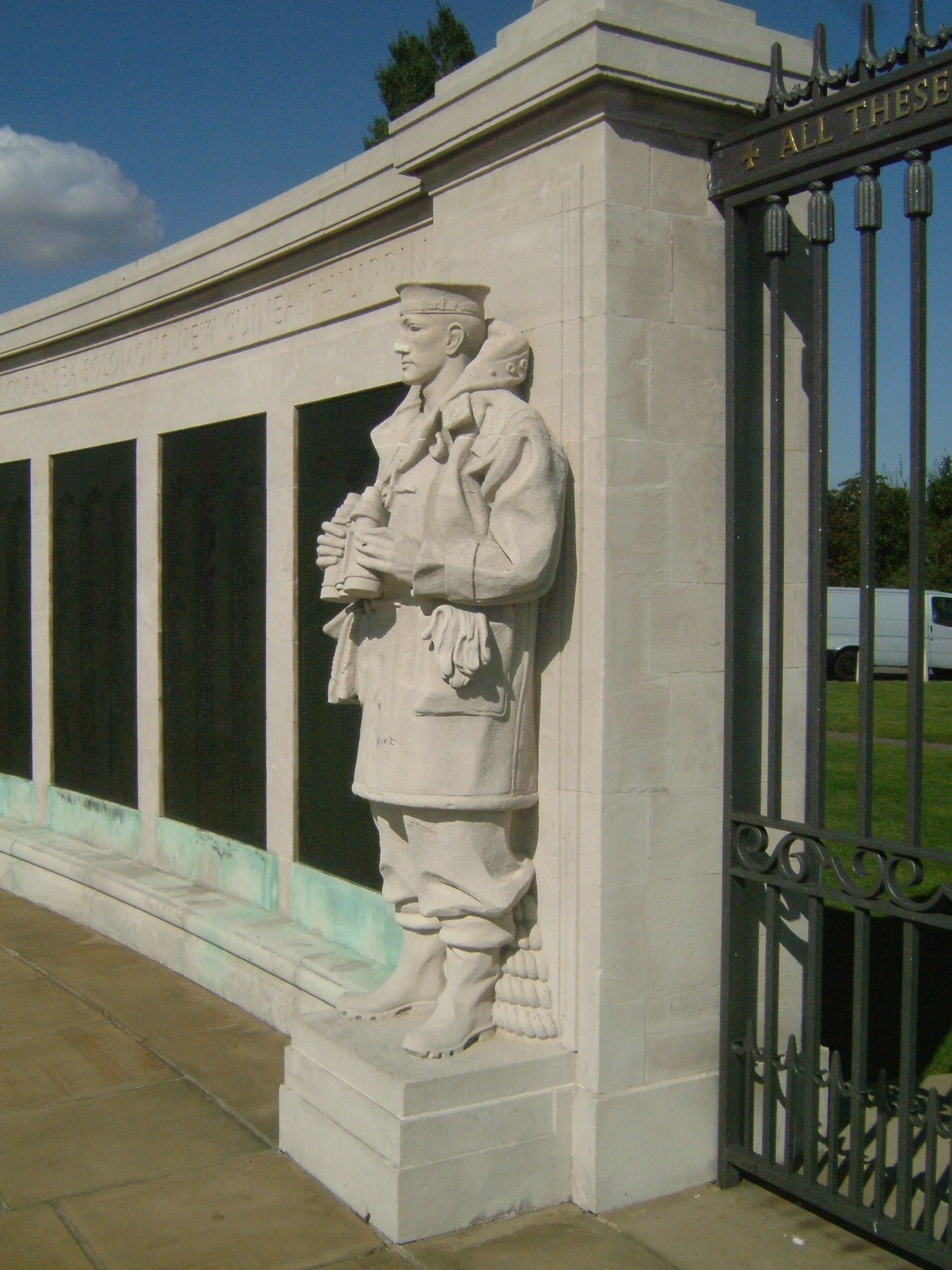 Chatham Naval Memorial, which records the names of 18,500 Naval Officers who died or were buried at sea in the First and Second World Wars 1914-1918 Architect Albert Lorimer, Sculptor Henry Poole. 1939-1945 Extension. Edward Maufe. Sculptor Charles Wheeler. On the Great Lines, Gillingham overlooking Chatham. Sculpture of Sailor on duty.